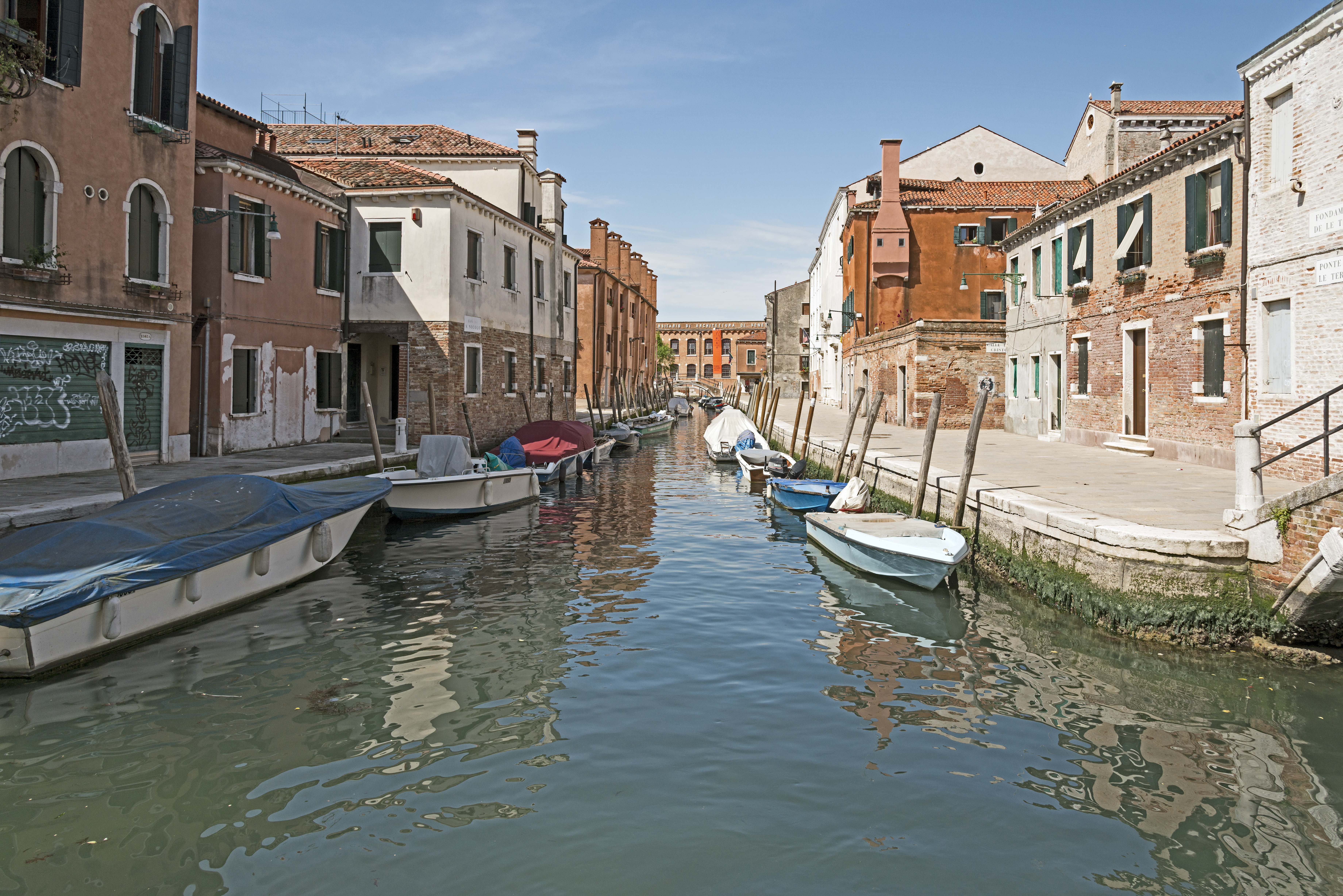 Rio de le Terese to Venice. From Fondamenta dell'Arzere to Ponte San Nicolo.